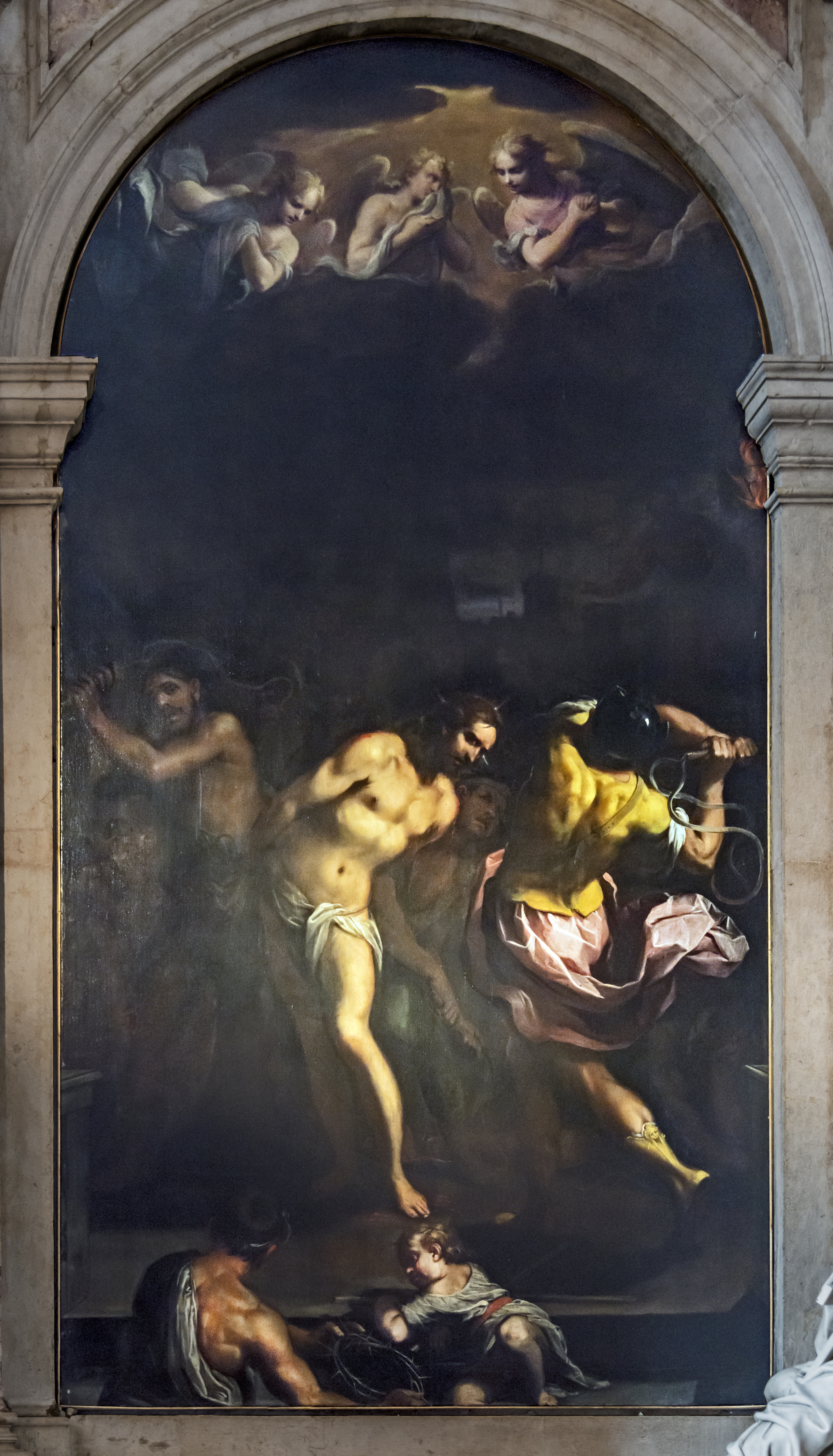 Basilica Santa Anastasia. The Chapel of the Rosary (1585 - 1596). Built to celebrate the victory Leponto (1571) by Domenico Curtoni (late 16th - early 17th century.) Nephew of architect Michele Sanmicheli. Flogging by Claudio Ridolfi (1560-1644). Oil on canvas; First half of the seventeenth century.